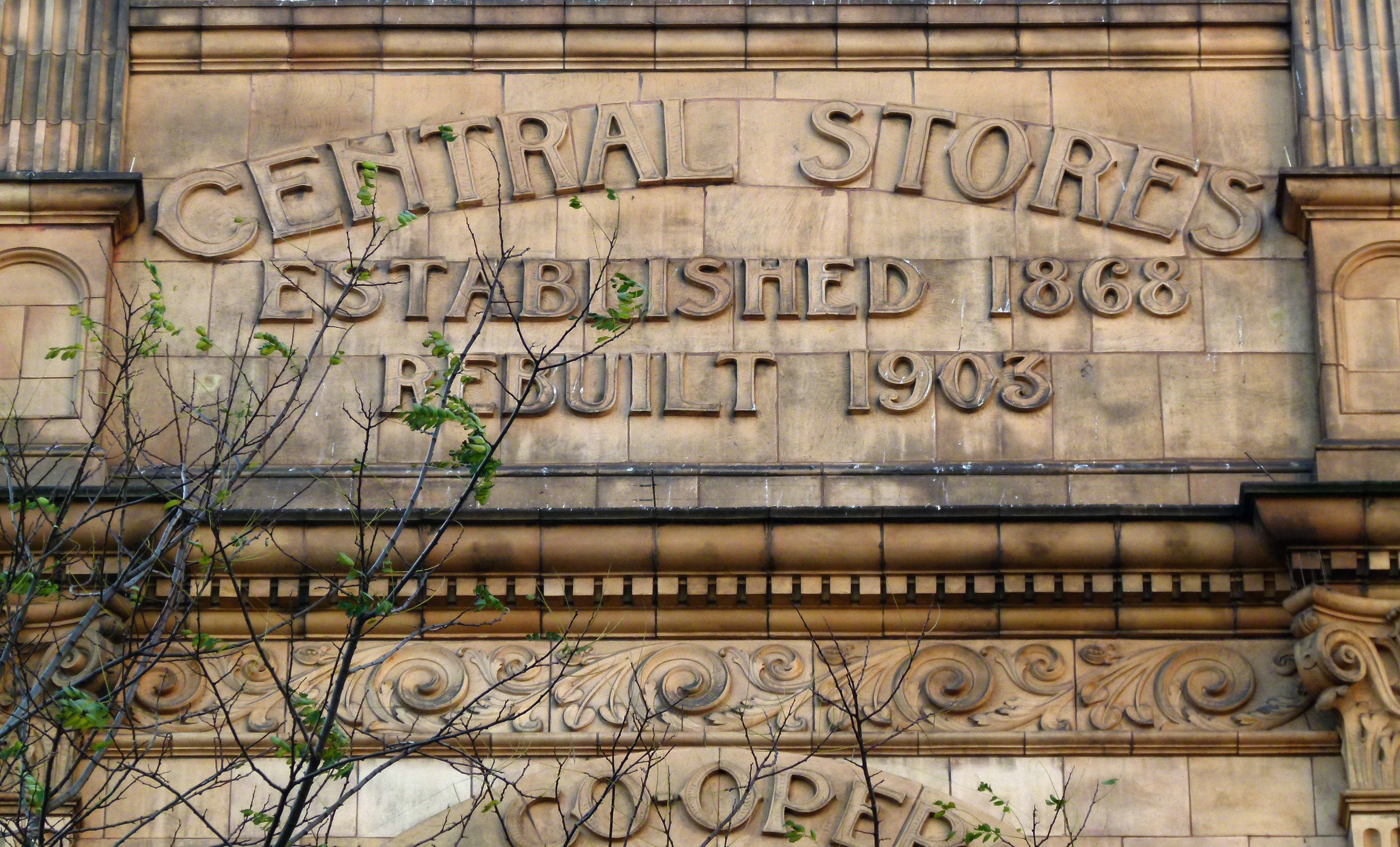 Detail of the former Co-op Central Stores building in Powis Street in central Woolwich, South East London.